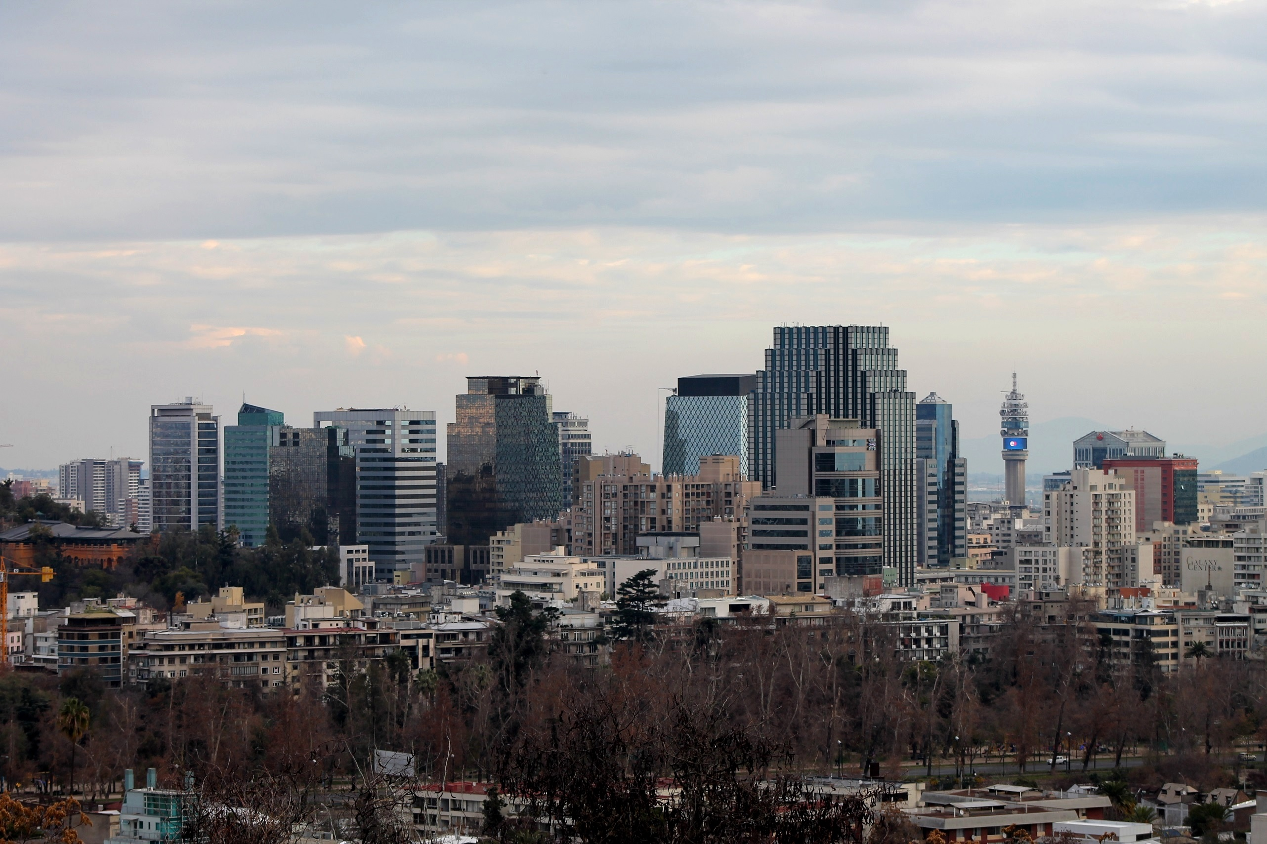 The Skyline of Santiago Commune Financial and Commercial Center